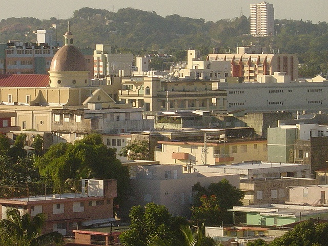 Mayaguez Center view